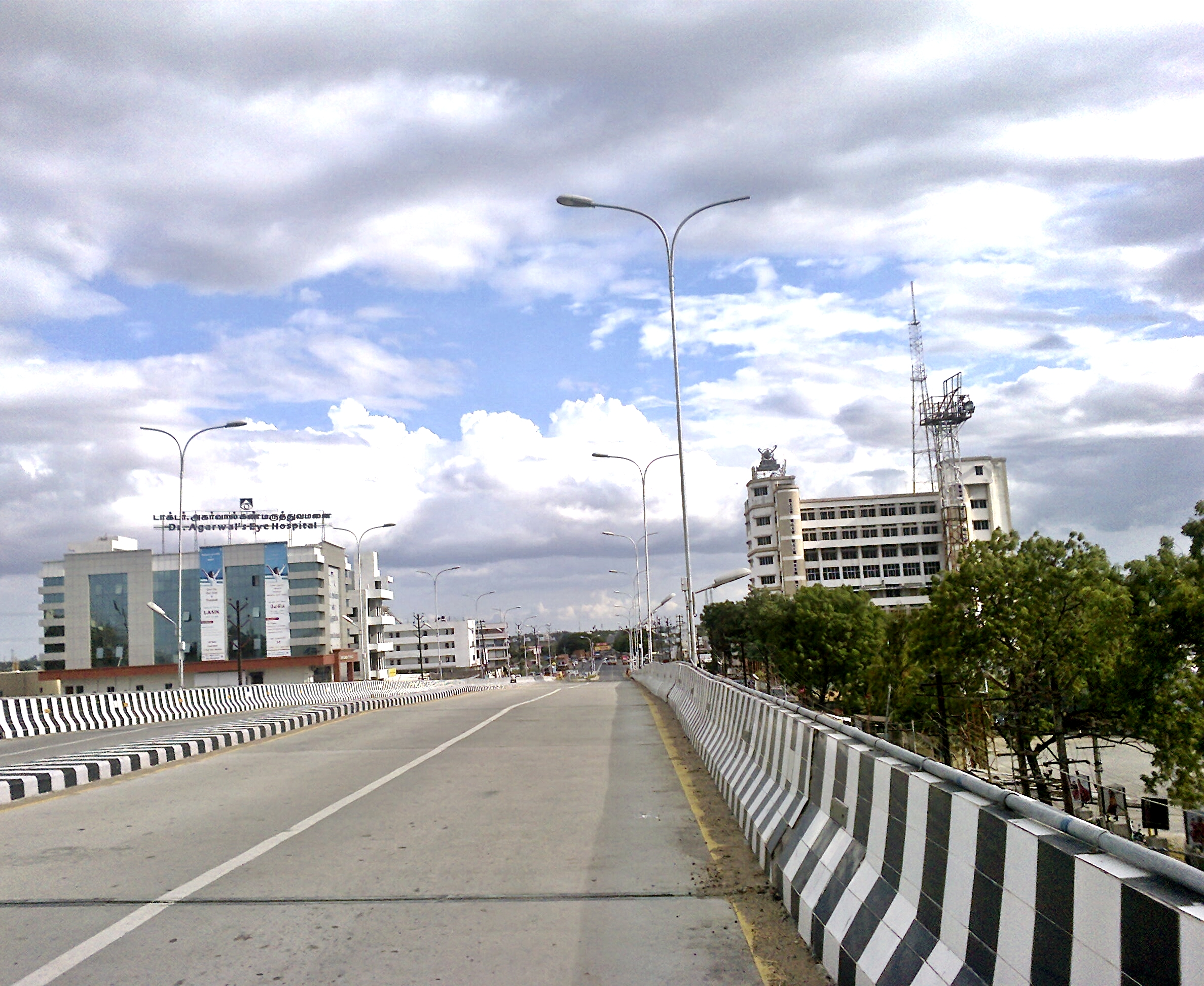 Min.Chellapandiyan Bridge in Vannarapettai